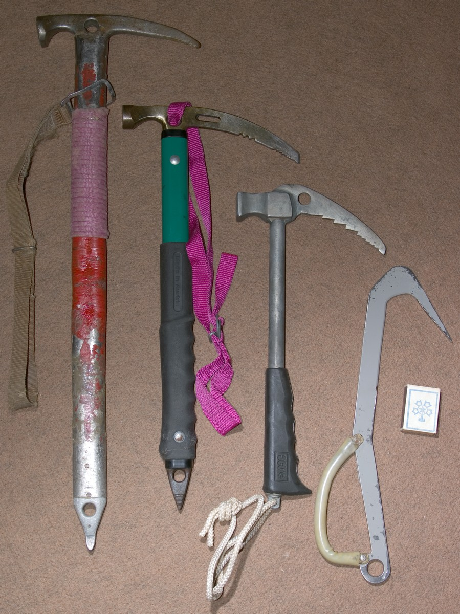 Ice climbing tools (from left to right): two Eisbeils (old-styled (1950...1980, l.) and modern (2000) one (r.)), Ice Hammer (1990) and Ice-Fifi (1990).